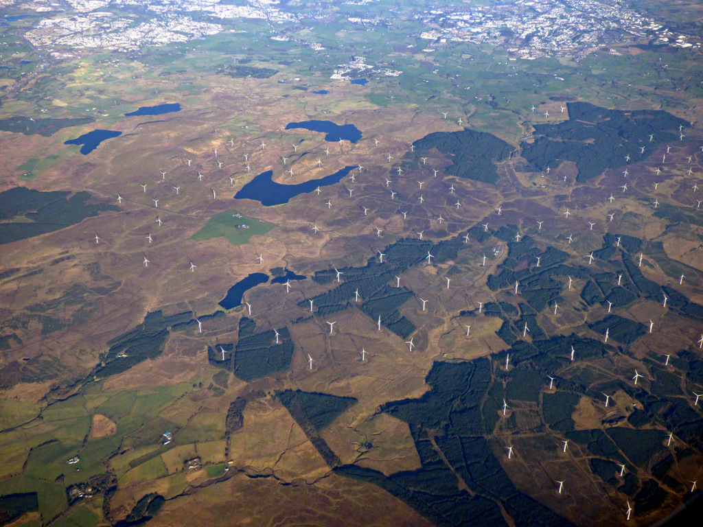 Whitelee wind farm from the air